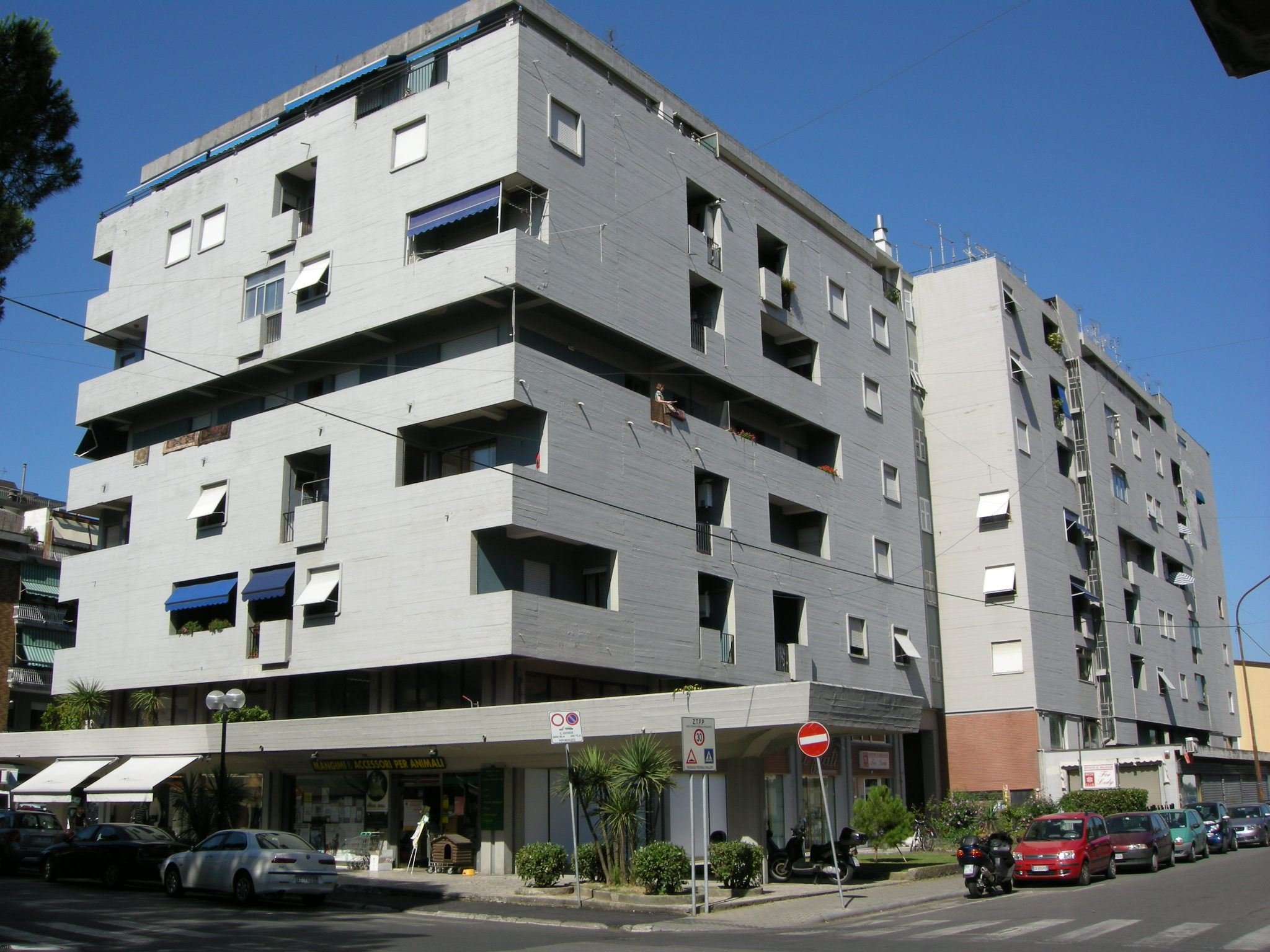 Concrete facades, with balconies − Condominio di via Venezia in Marina di Carrara, Tuscany.